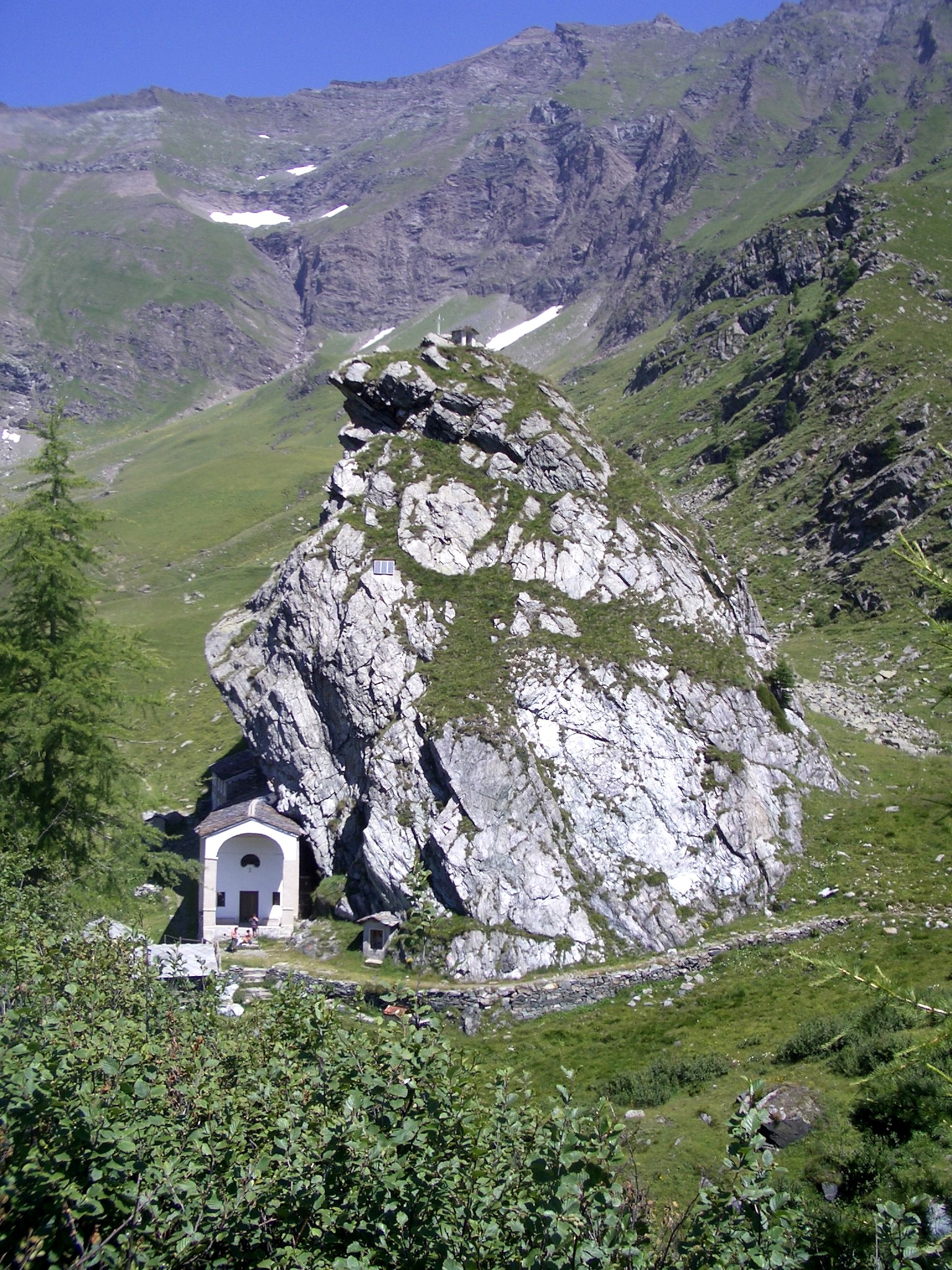 Sanctuary of San Besso, Val Soana, Piedmont, Italy